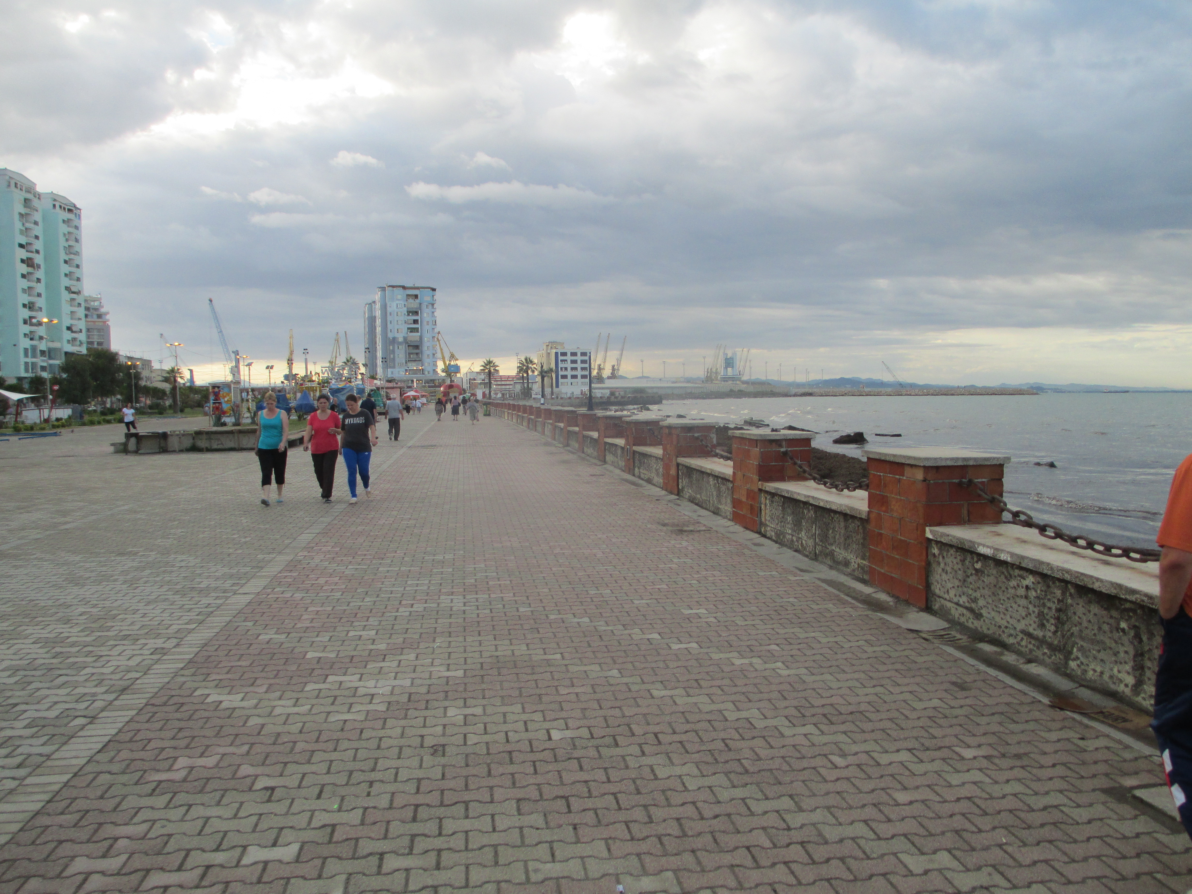 Durrës beach promenade